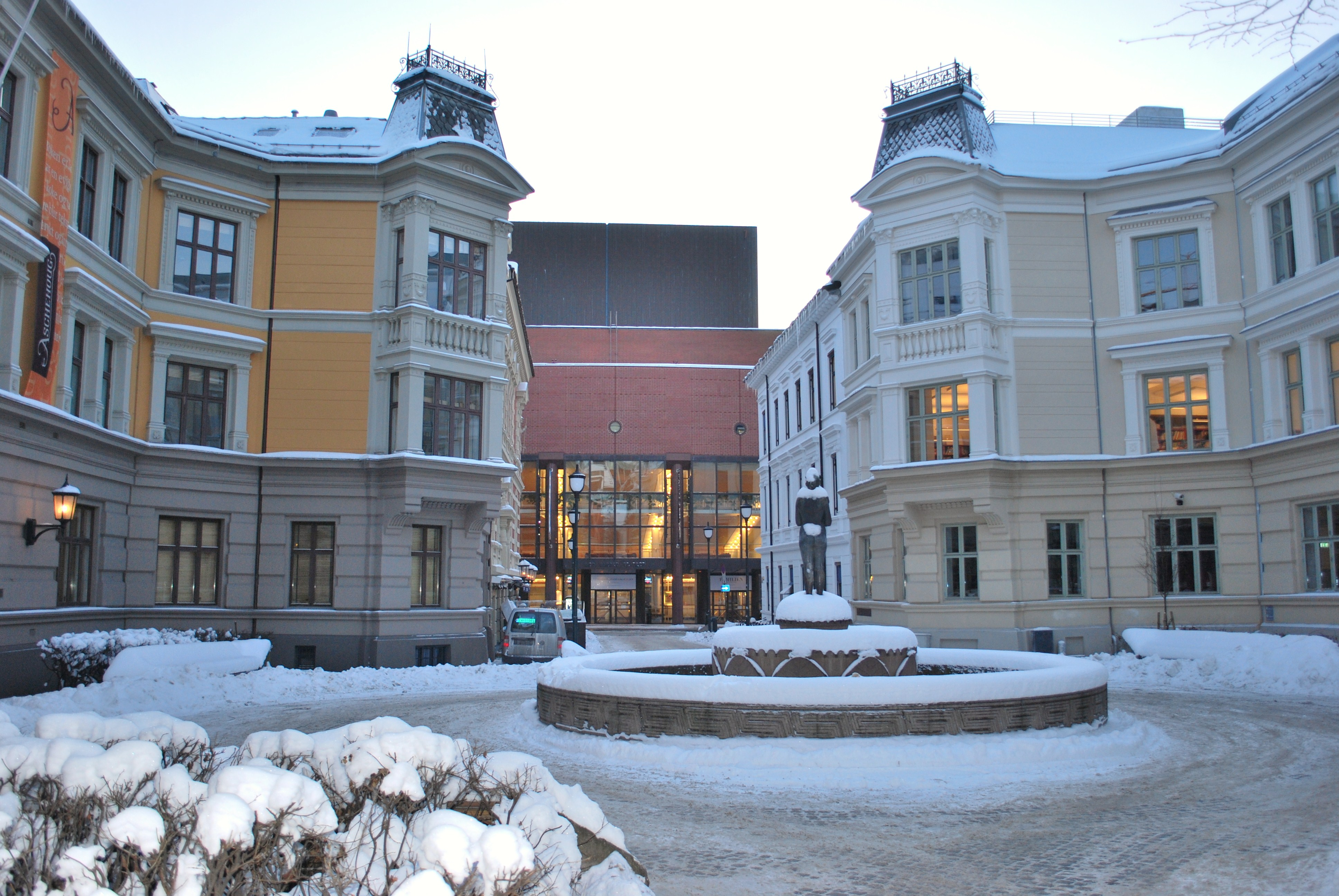 Sehesteds plass (Square) and gate (street), downtown Oslo, Norway. Det Norske Teatret seen in the end of Sehesteds gate